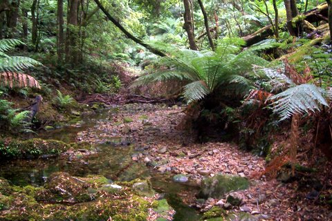 Pinkwood Creek, Deua National Park